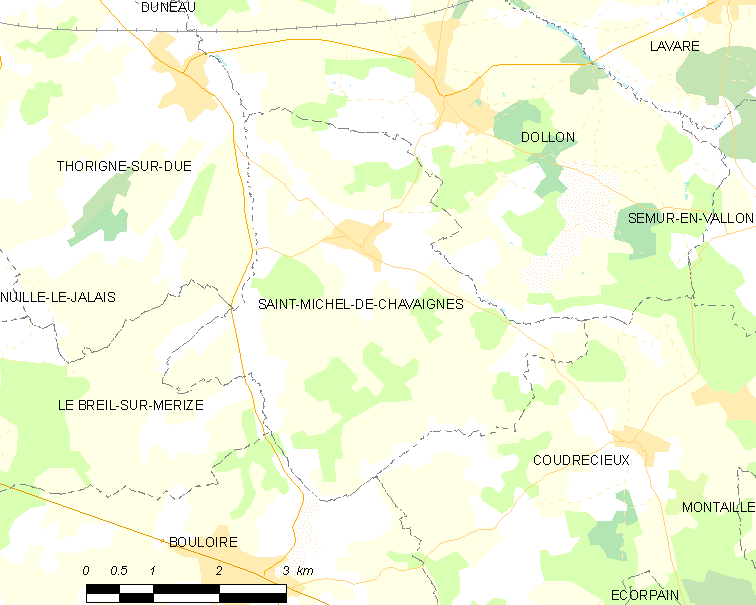 Map of French municipality